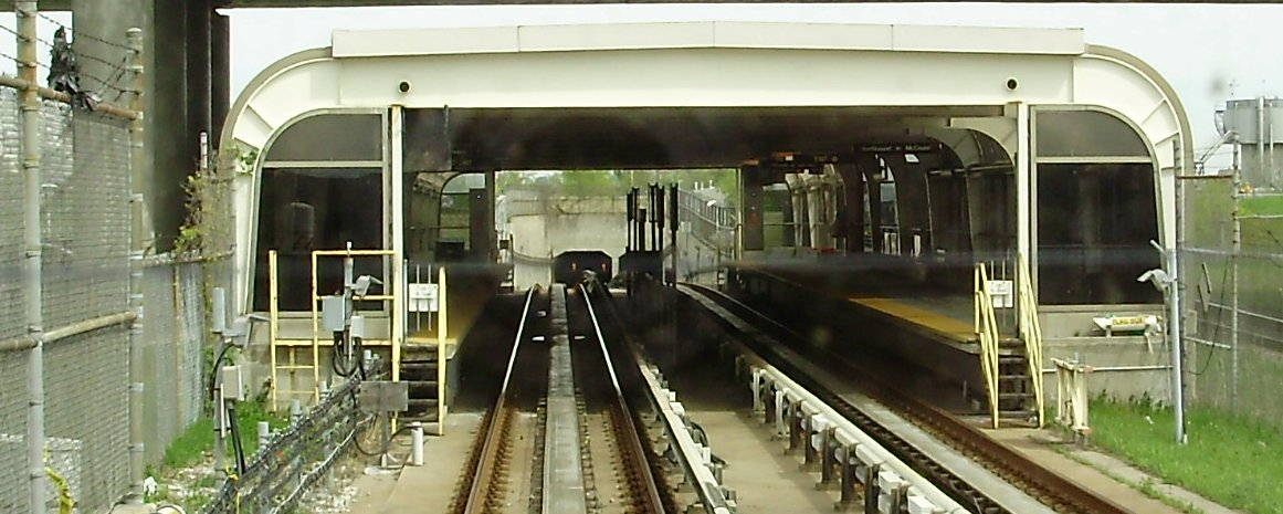 The Toronto Transit Commission's Ellesmere station in Scarborough, Canada, photographed from the rear car of a southbound RT train.